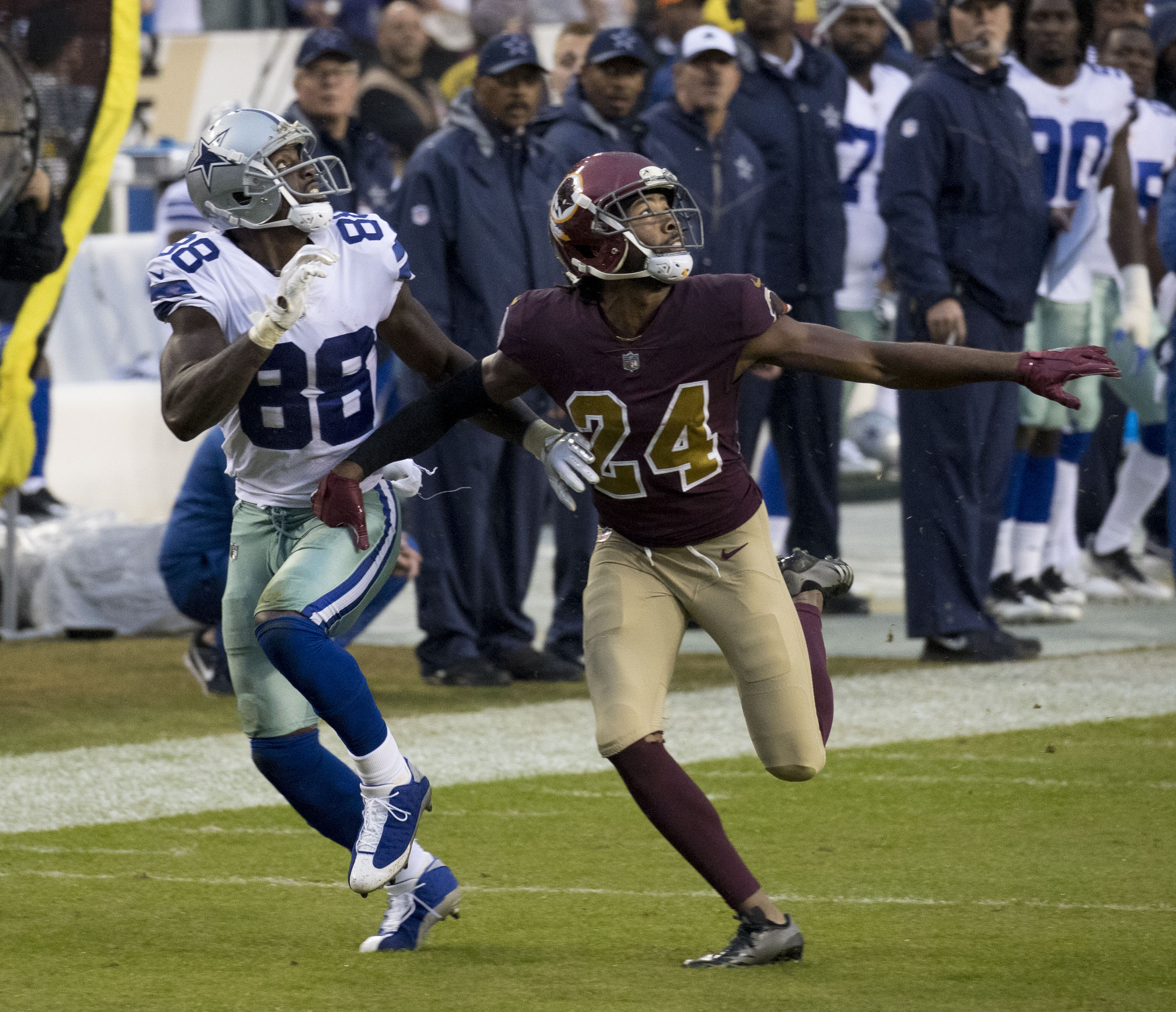 Cowboys at Redskins 10/29/17